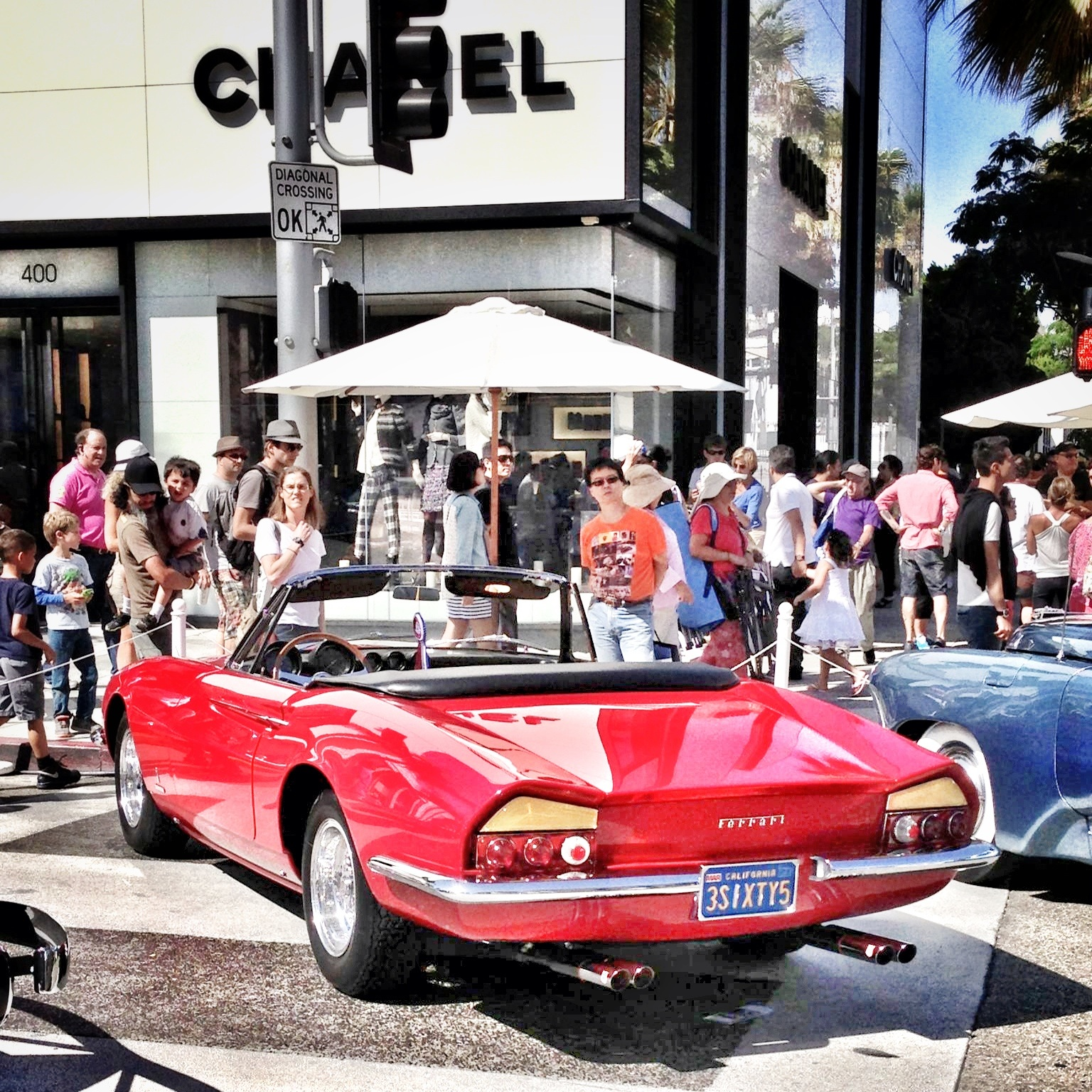 1967 Ferrari 365 California, exhibited at the 2013 Rodeo Drive Concours d'Elegance.